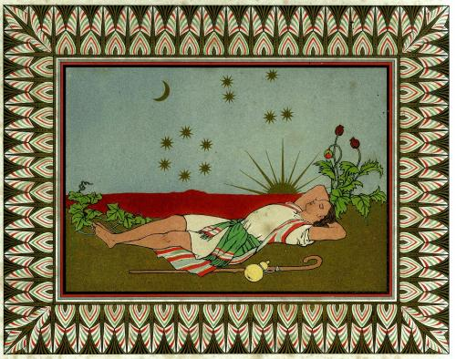 Illustration by Owen Jones from "The History of Joseph and His Brethren" (Day & Son, 1869). Scanned and archived at where it was marked as Public Domain. Text from Book: And he dreamed yet another dream, and told it to his brethren, and said, behold, I have dreamed a dream more, and behold, the sun, the moon, and the eleven stars, made obeisance to me. Genesis, C. XXXVII. V. 9.